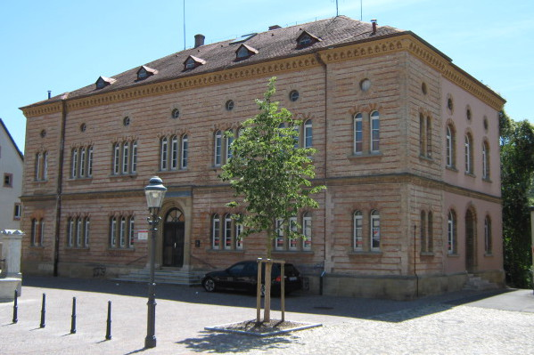 Historical building, so called "Altes Spital" (old hospital), Müllheim, Germany; builded in